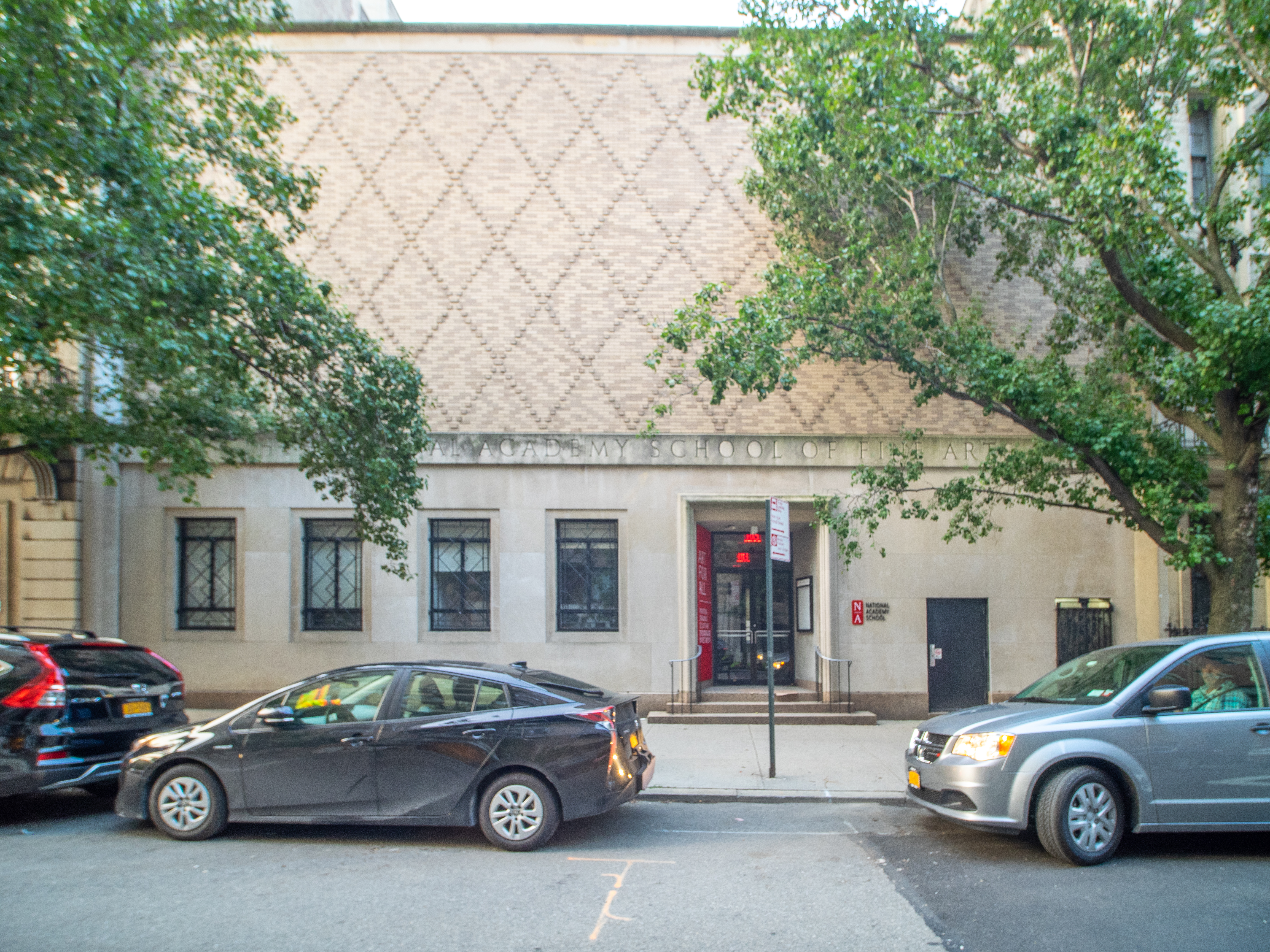 Upper East Side, Manhattan, New York